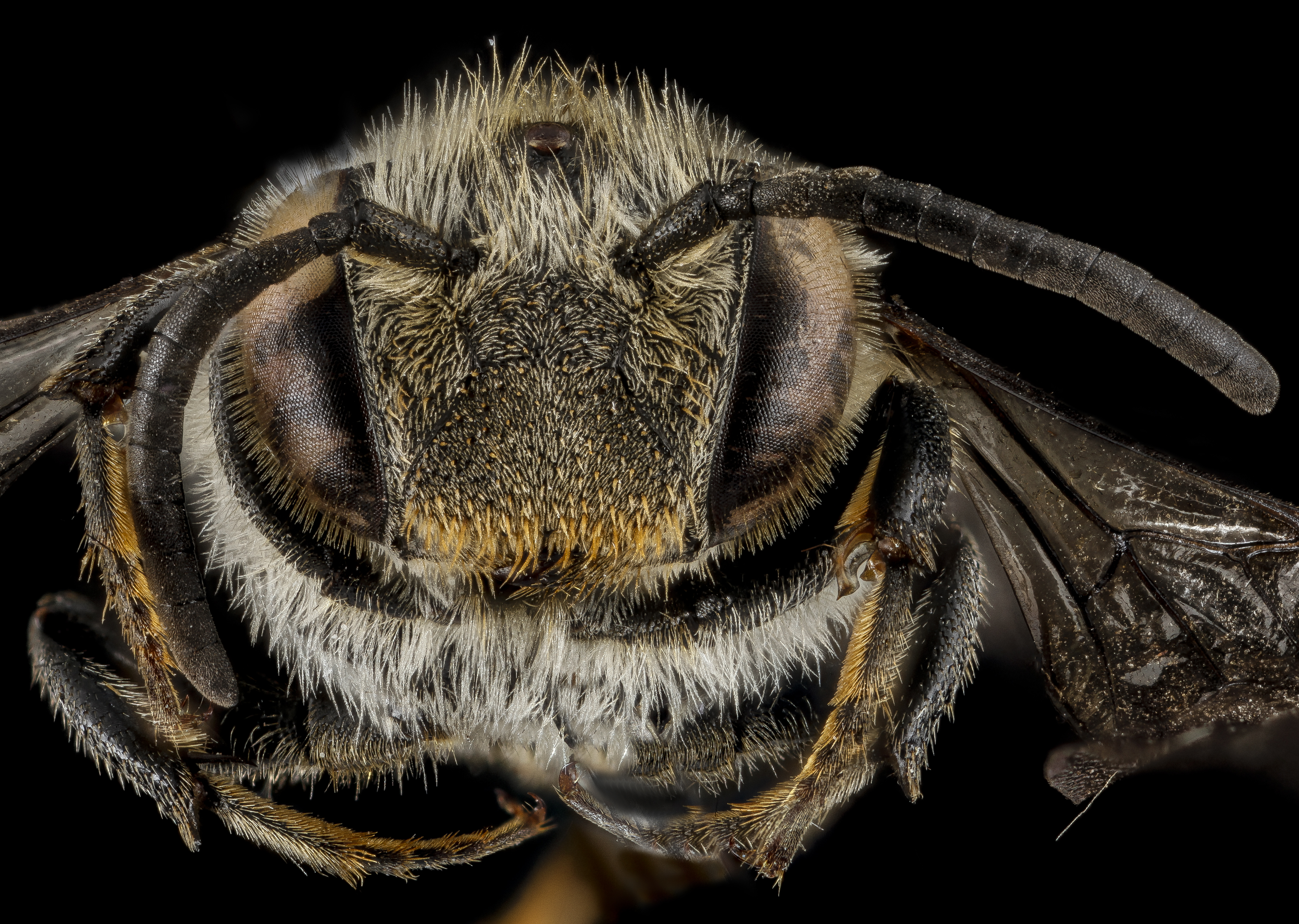 Acadia National Park, Maine